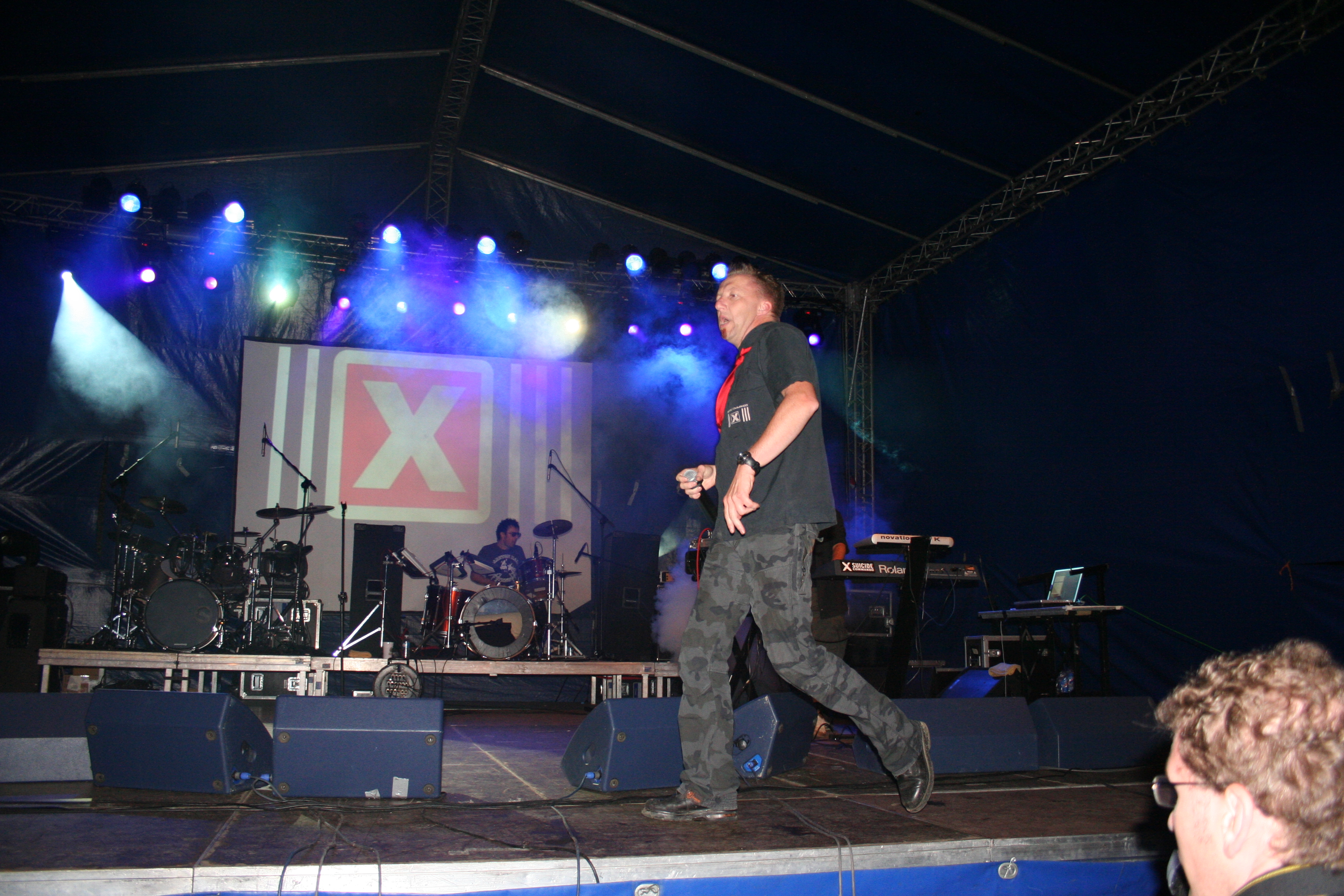 Suicide Commando, Castle Party 2007, Bolków